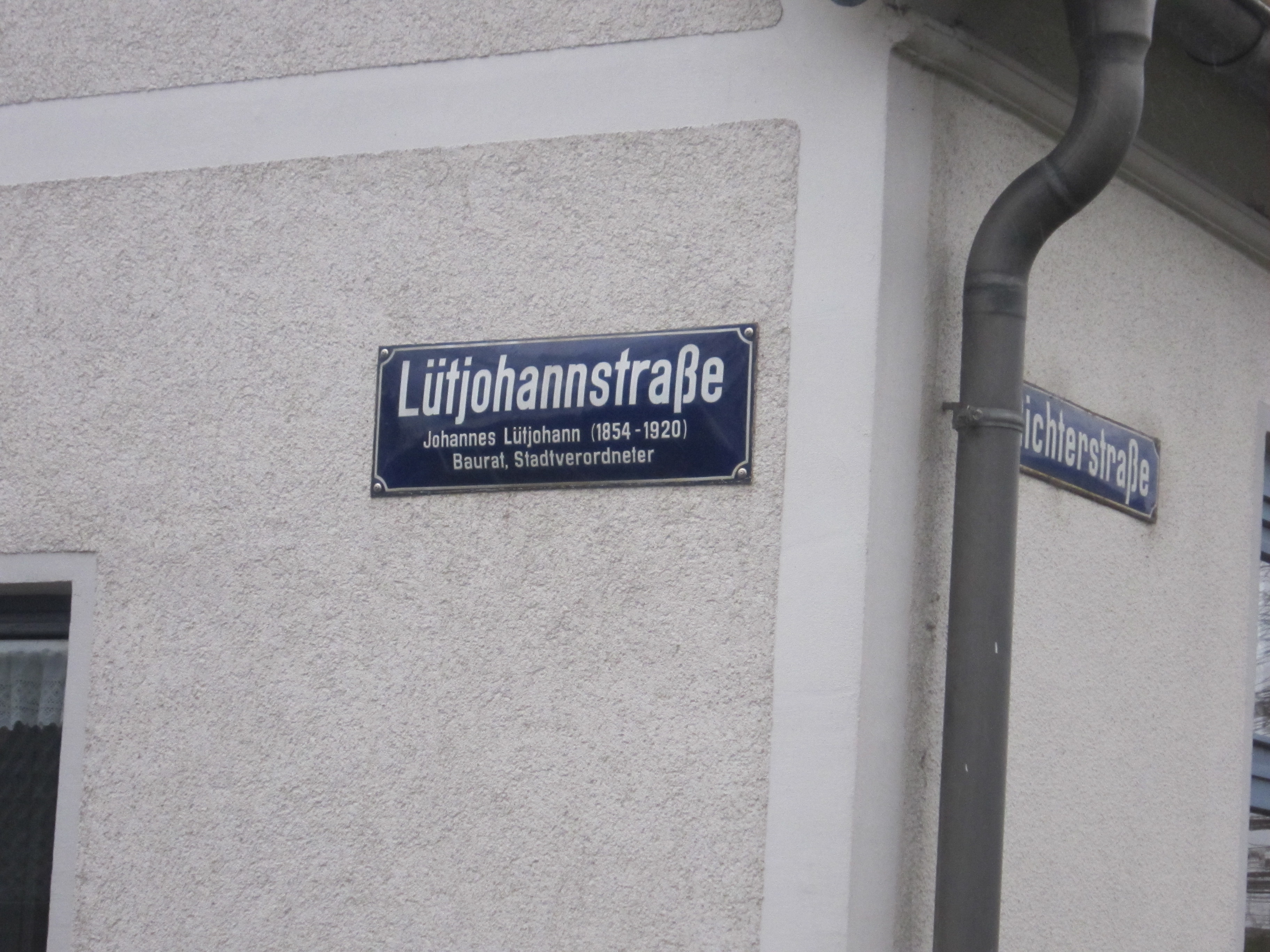 Street sign "Lütjohannstraße", Kiel-Holtenau